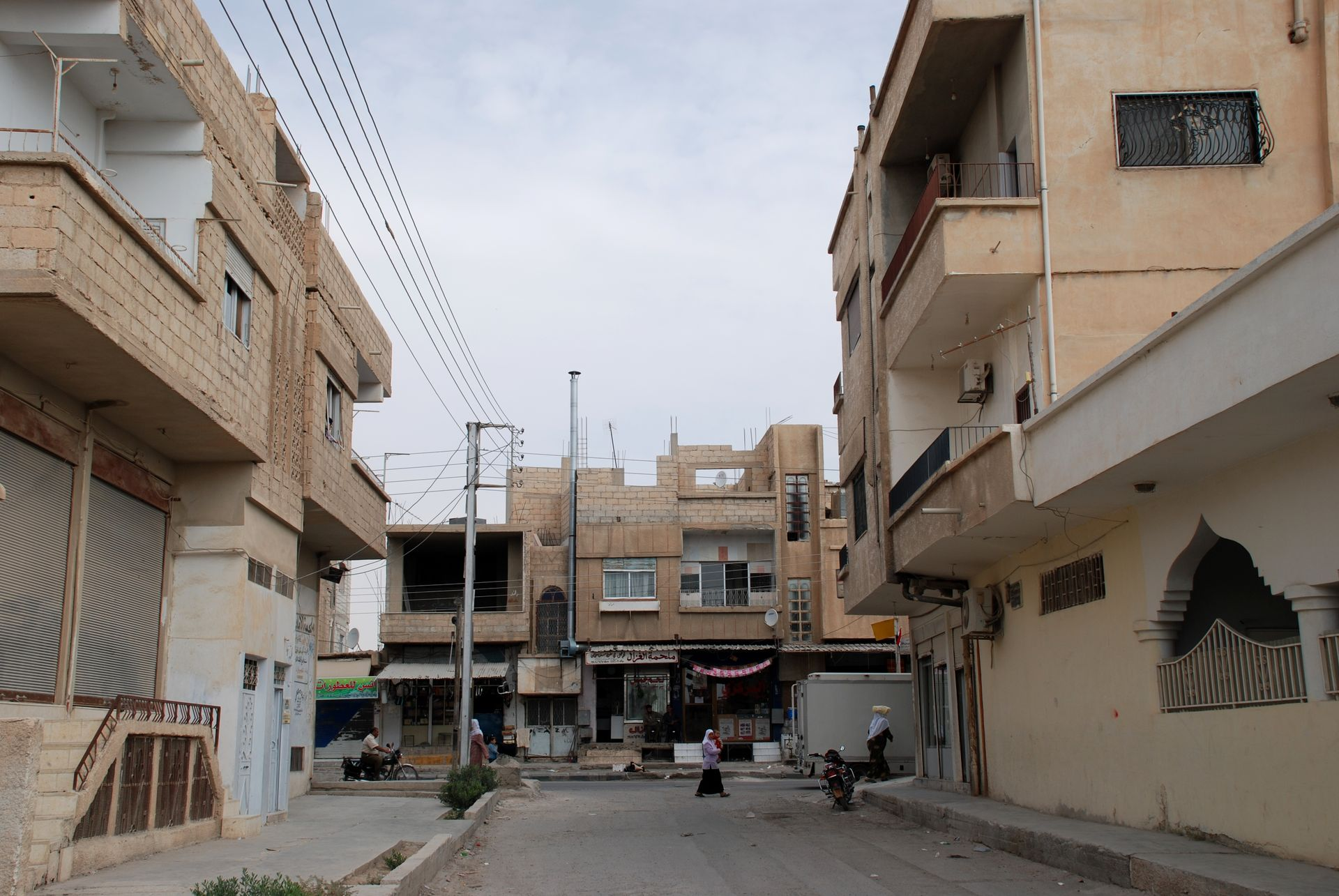 Al-Dumayr, Syria, main street